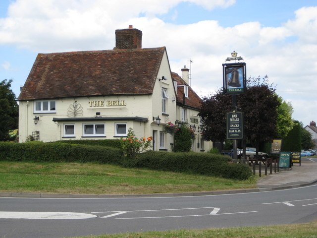 Westoning: The Bell public house, near to Westoning, Bedfordshire, Great Britain. Old maps show that the 17th century Bell used to be on the main road going north out of Westoning towards Flitwick. However the modern re-alignment of the High Street has meant that it now fronts onto Greenfield Road. It is a Greene King outlet.